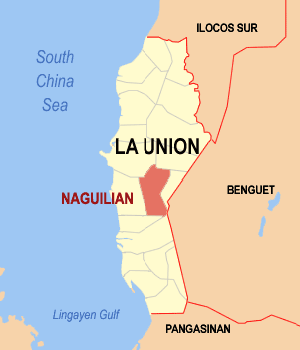 Map of La Union showing the location of Naguilian